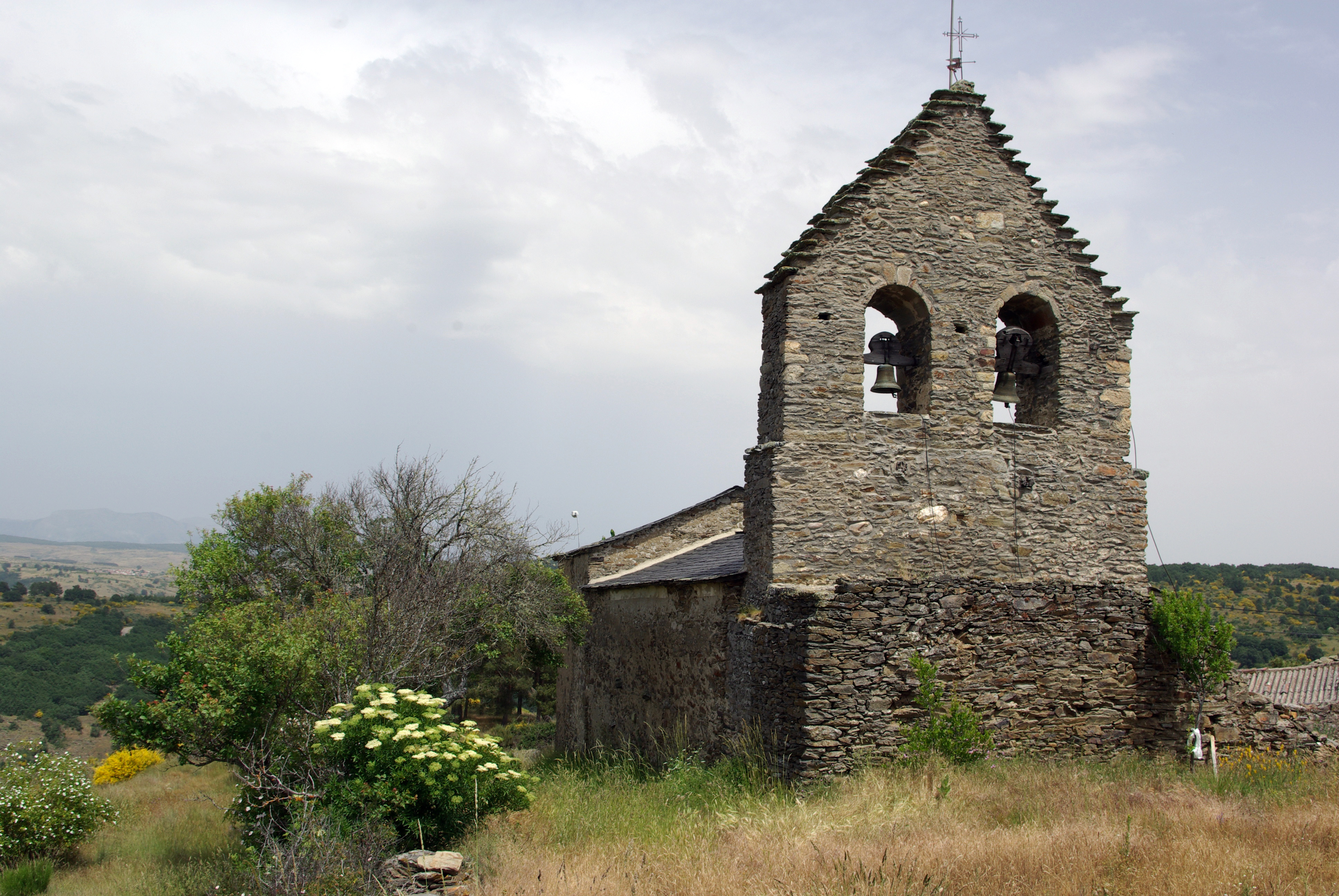 Church in Castro La Lomba (Riello, León, Spain).